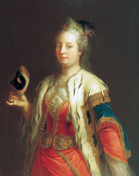 Maria Theresa with mask in Turkish dress